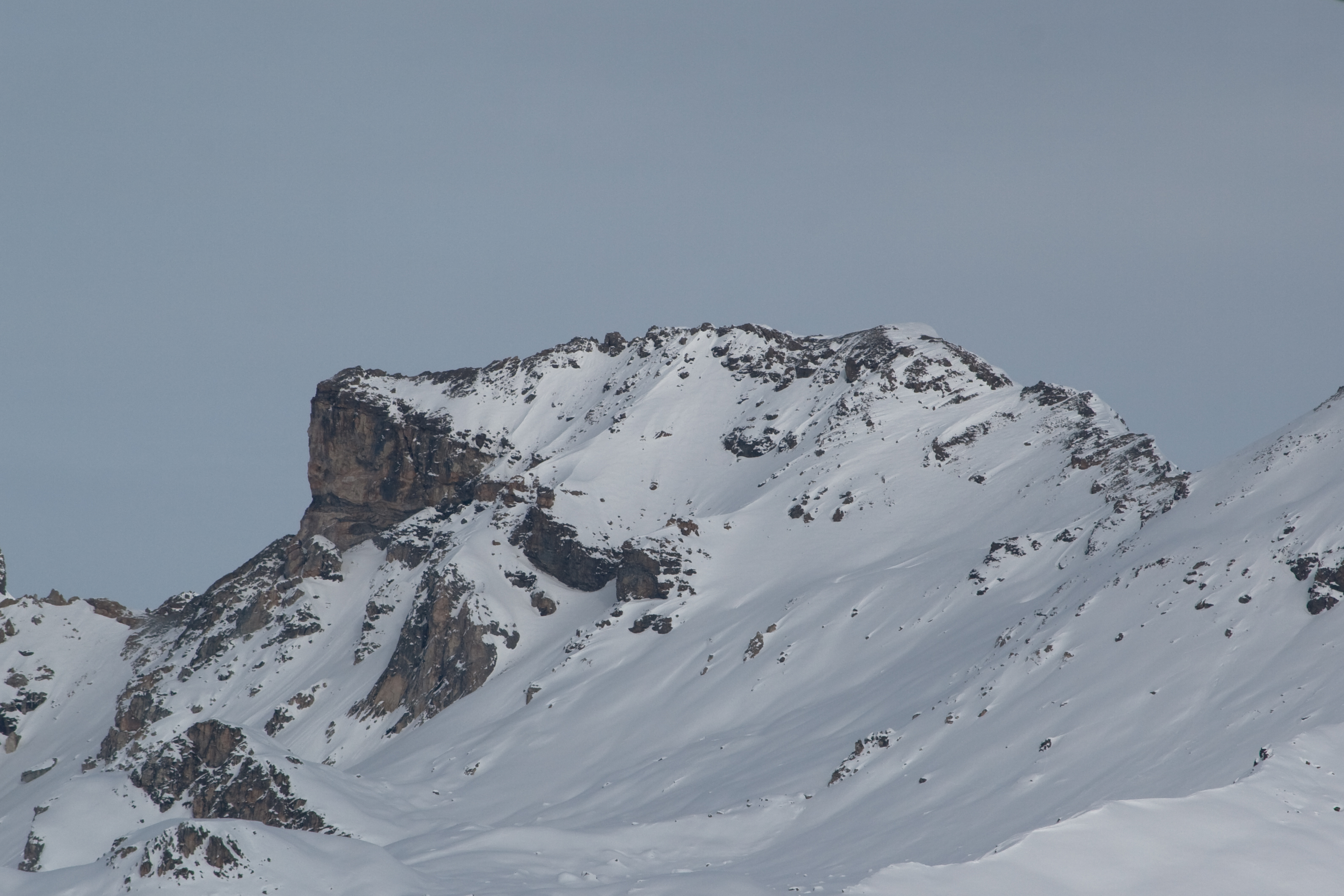 Le Boudri seen from the Corne de Sorebois. Note: The Pointe de la Forcletta is not visible because it is located to the right of the picture.